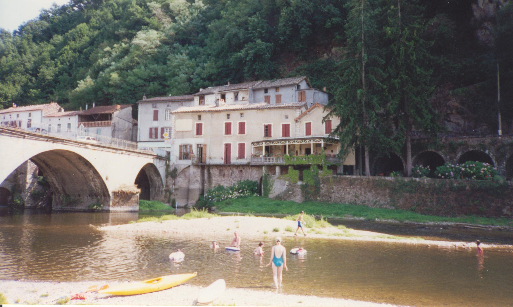 Original text on Flickr: People in the river Viaur, Laguépie, France, during our interrail trip in 1995. We hired bikes here and did some cycling around the area, including down to Cordes-Sur-Ciel.